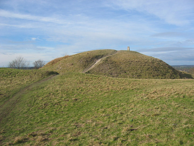 Totternhoe Castle, near to Totternhoe, Bedfordshire, Great Britain. Ancient Motte & Bailey Castle found at the top of the Totternhoe Knolls.